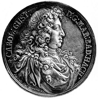 Coin made by Anton Meybusch of Margrave Charles Gustav of Baden-Durlach.